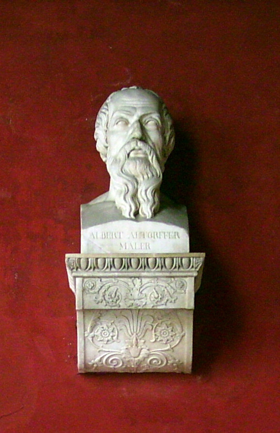 Bust of Albrecht Altdorfer at Ruhmeshalle ("Hall of fame"), München, Germany.